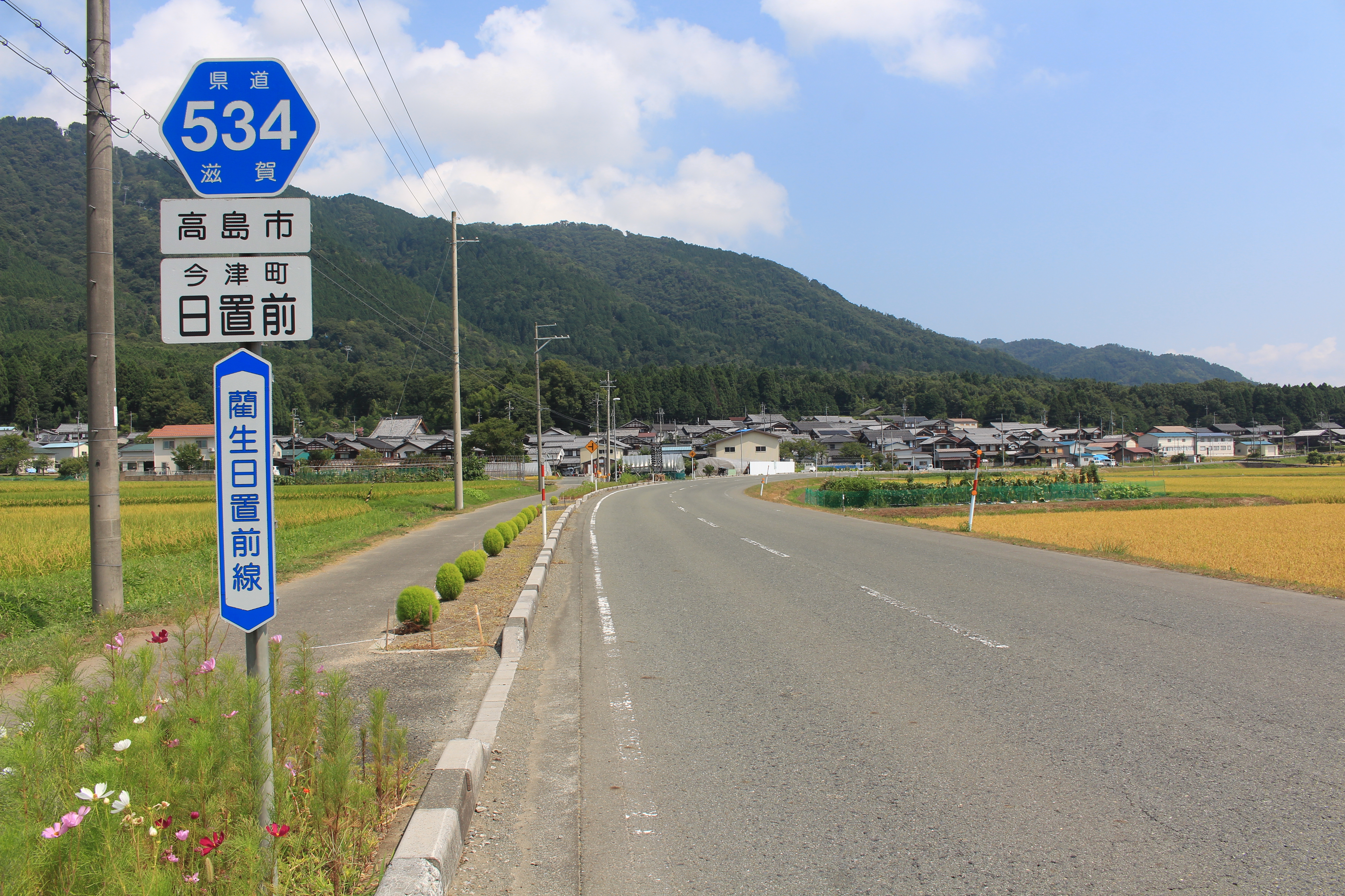 Shiga Prefectural Road Route 534 in Hiokimae, Imazu-cho, Takashima city, Shiga prefecture, Japan.